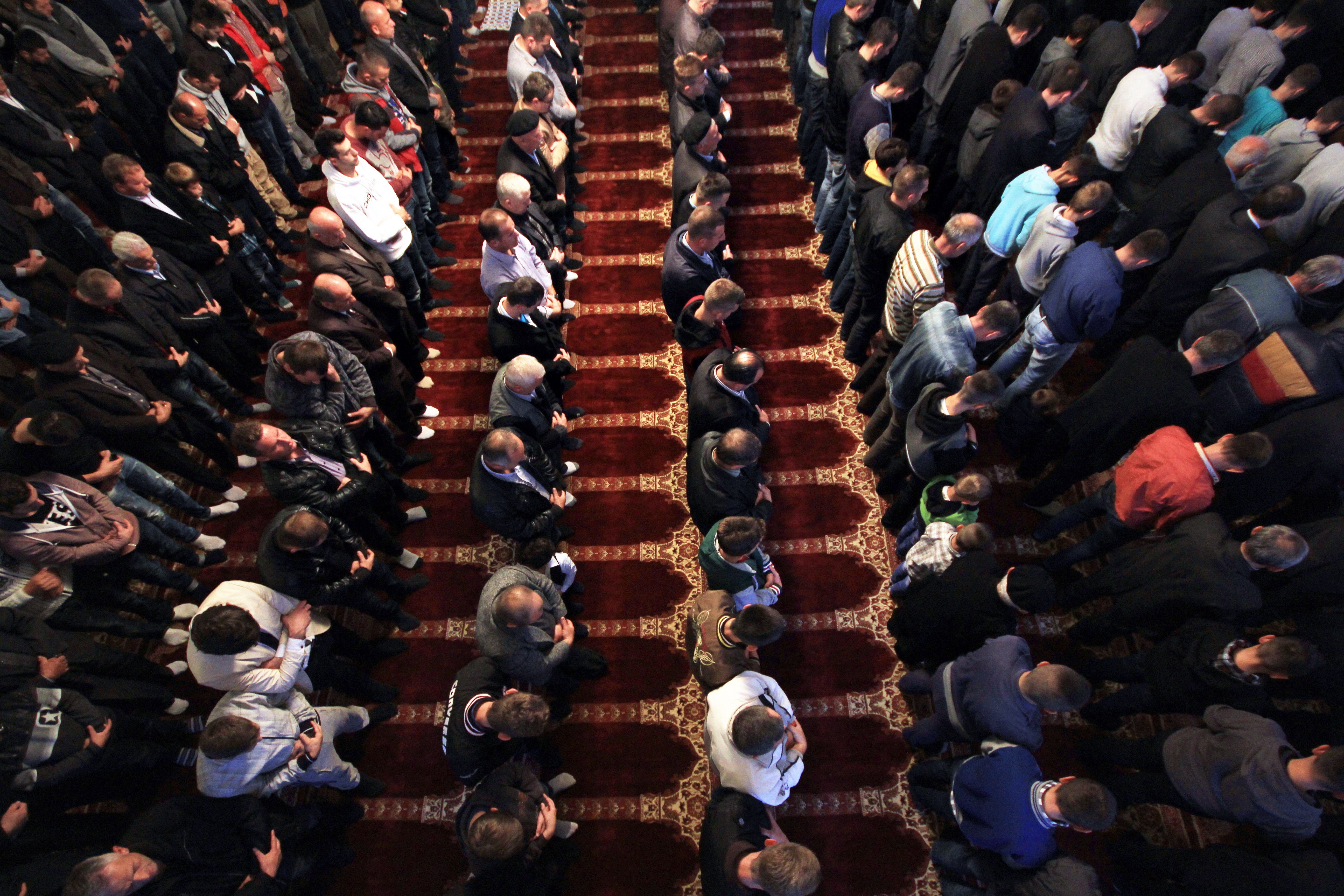 "Sheikh Zayed" Mosque - Vushtrri